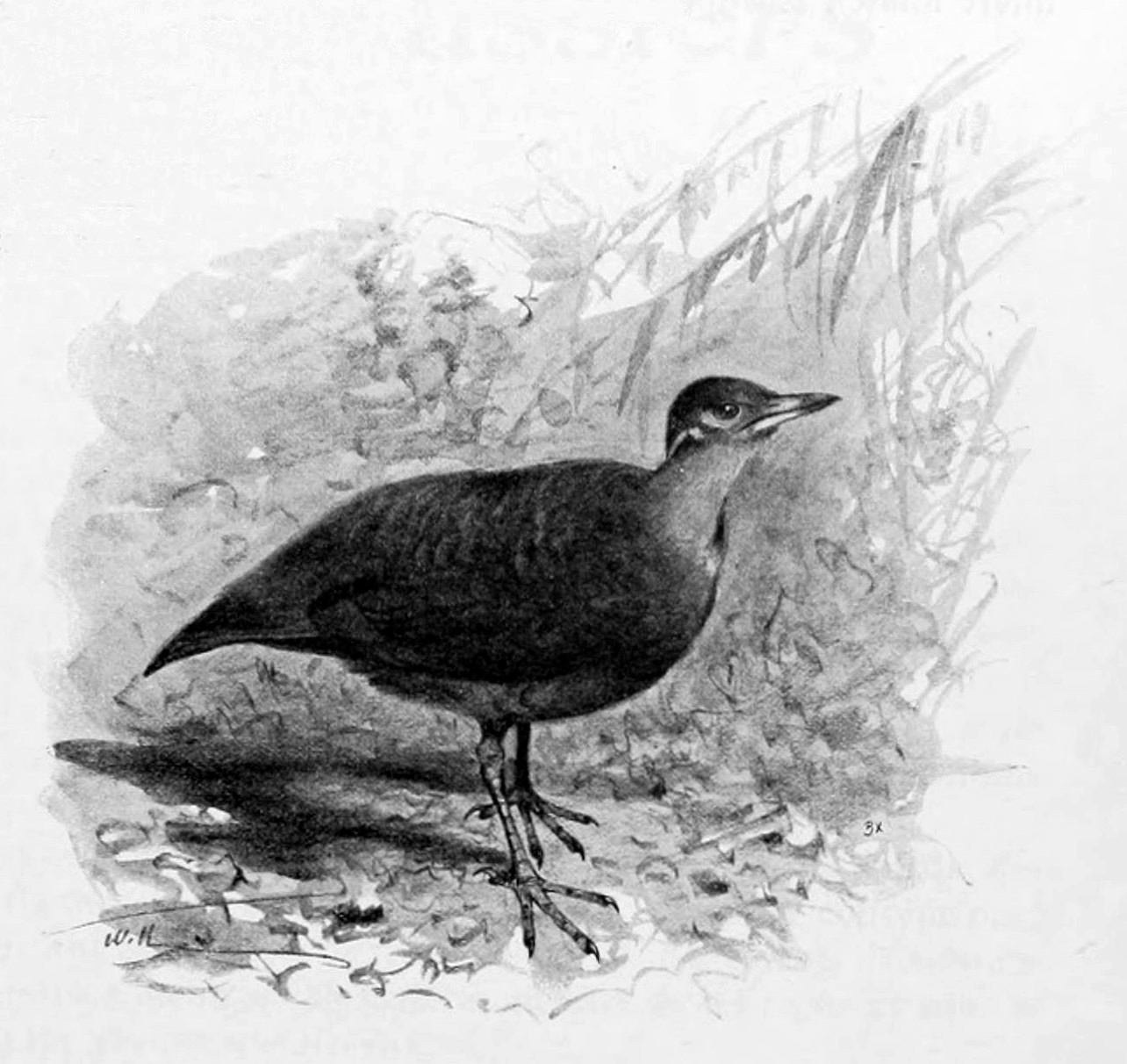 White-breasted Mesite = Mesitornis variegatus